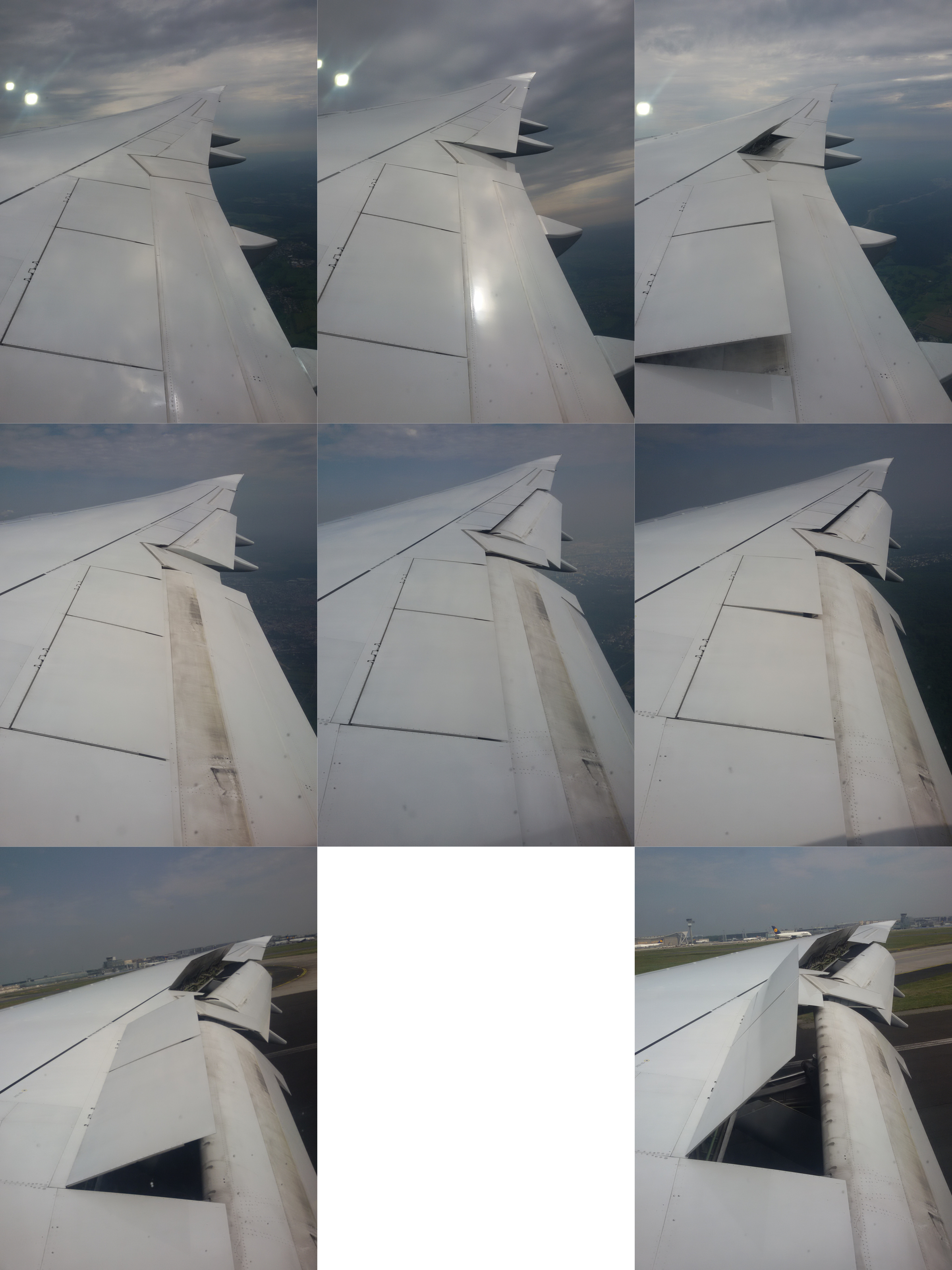 Aileron, flaps, and spoilers of a Boeing 747-8I at work.